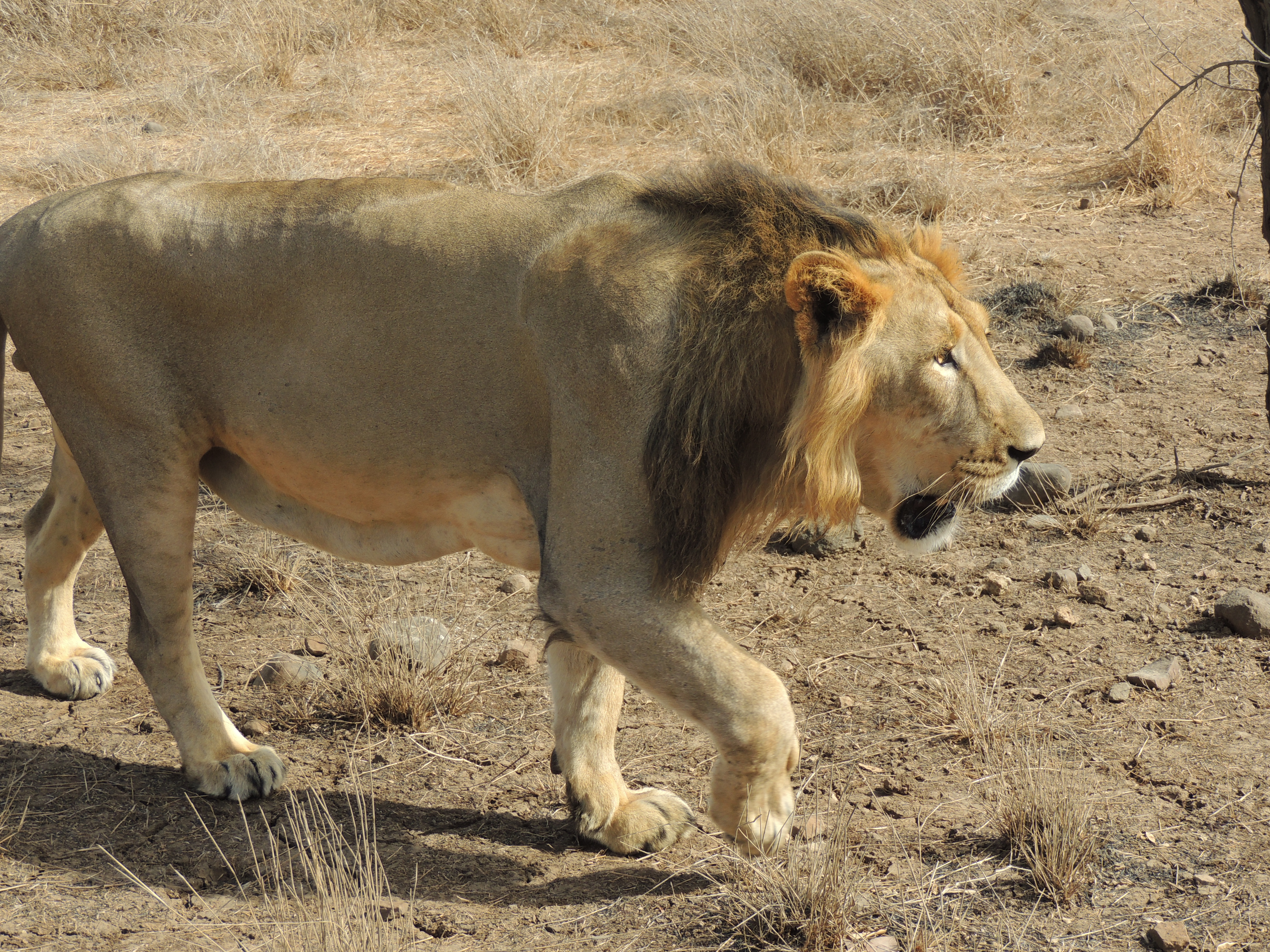 This image was clicked in Gir Forest National Park.